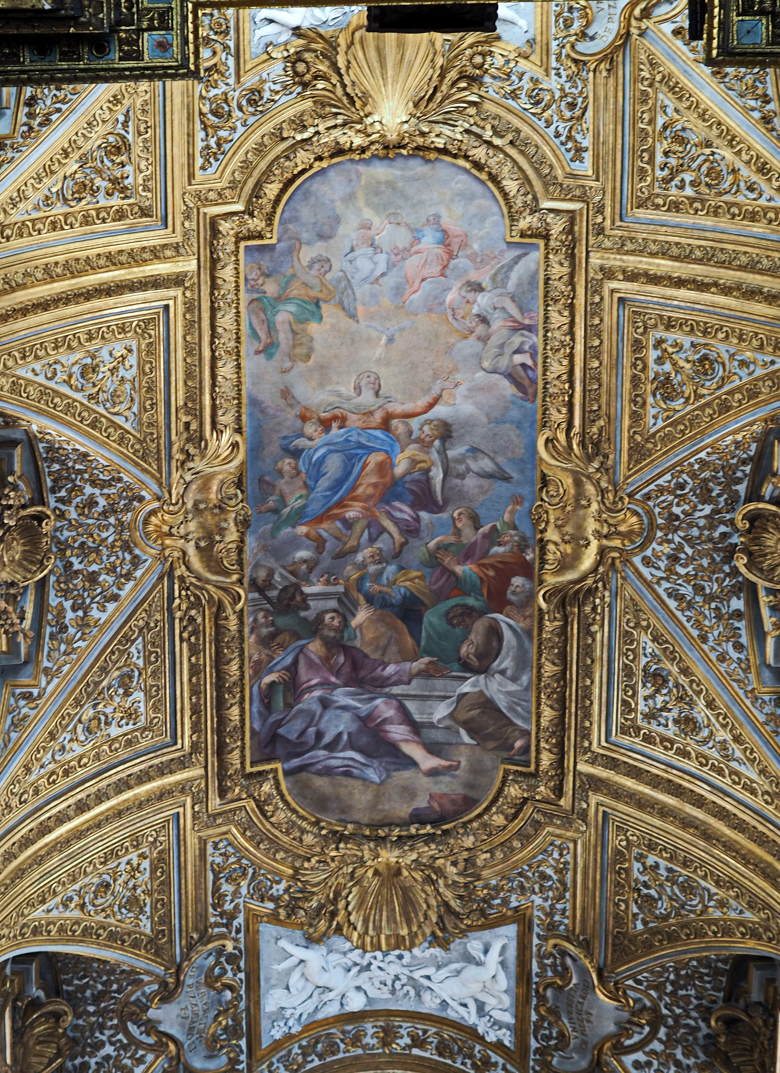 Santa Maria dell'Orto (Rome); Vault